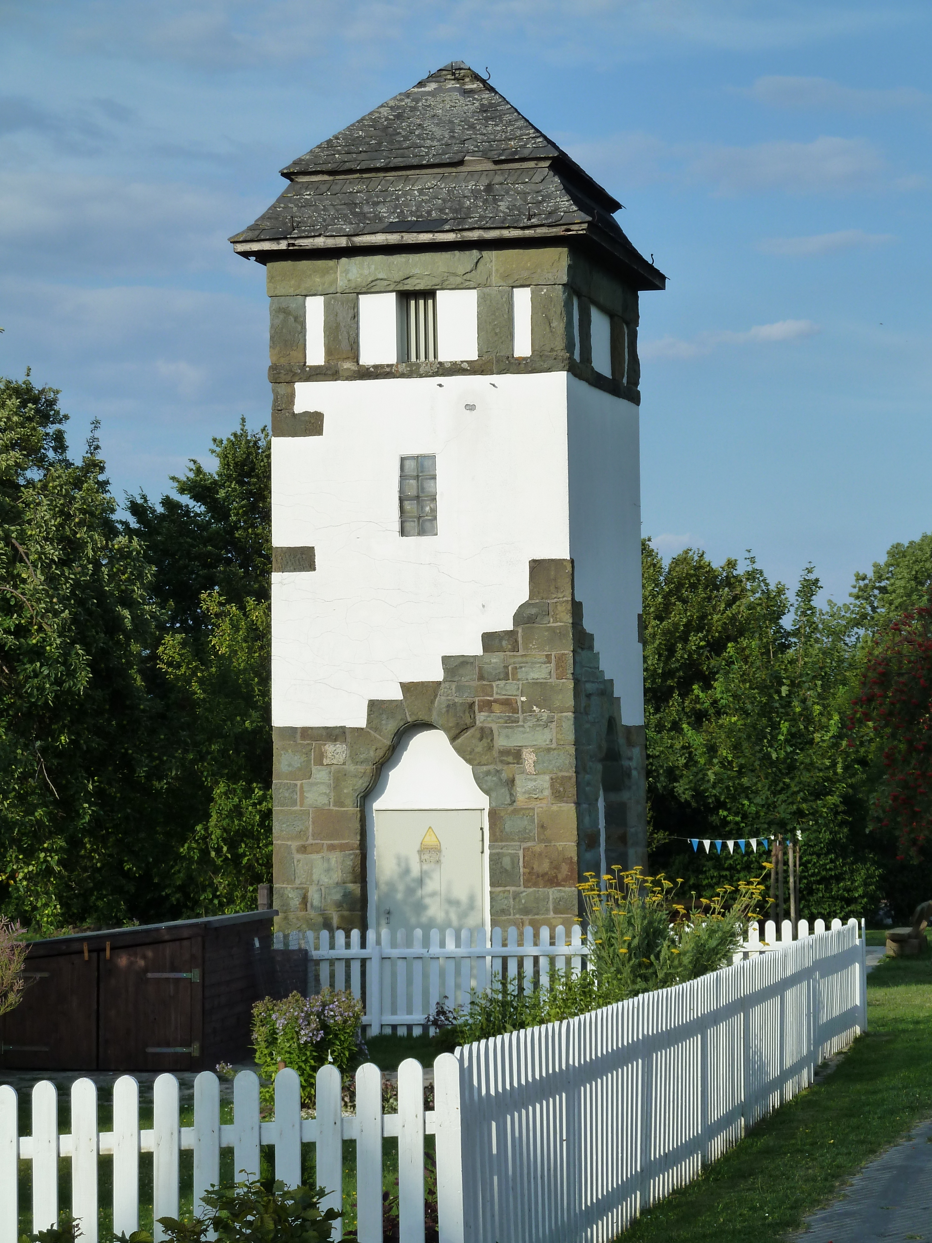 Power Substation in Völlinghausen (Erwitte)